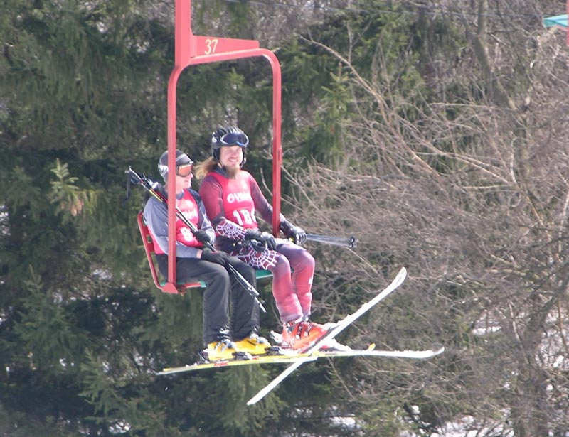 Wilmot Mountain Ski Resort, chairlift #1 on Stateline. Wilmot, Wisconsin. Photo by Richard C. Drew.